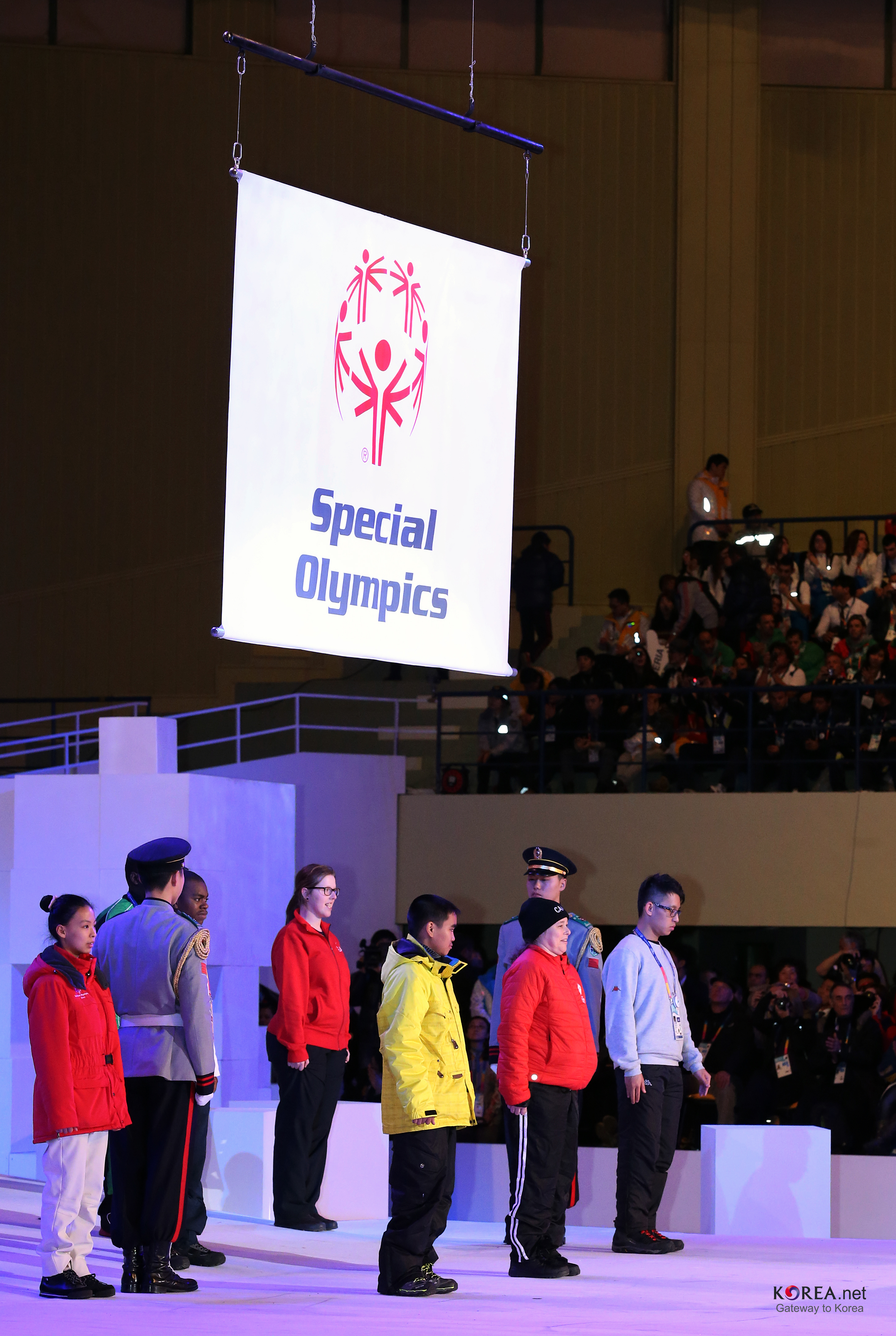 2013 PyeongChang The Special Olympics World Winter Games Opening Ceremoney PyeongChang Dome, PyeongChang, Gangwon-Do 2013.01.29. Ministry of Culture, Sports and Tourism Korean Culture and Information Service Jeon Han 2013 평창 동계 스페셜올림픽 세계대회 개막식 용평돔, 평창, 강원도 문화체육관광부 해외문화홍보원 코리아넷 전한